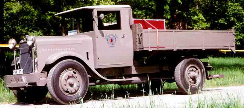 Scania-Vabis 3352 Truck 1934